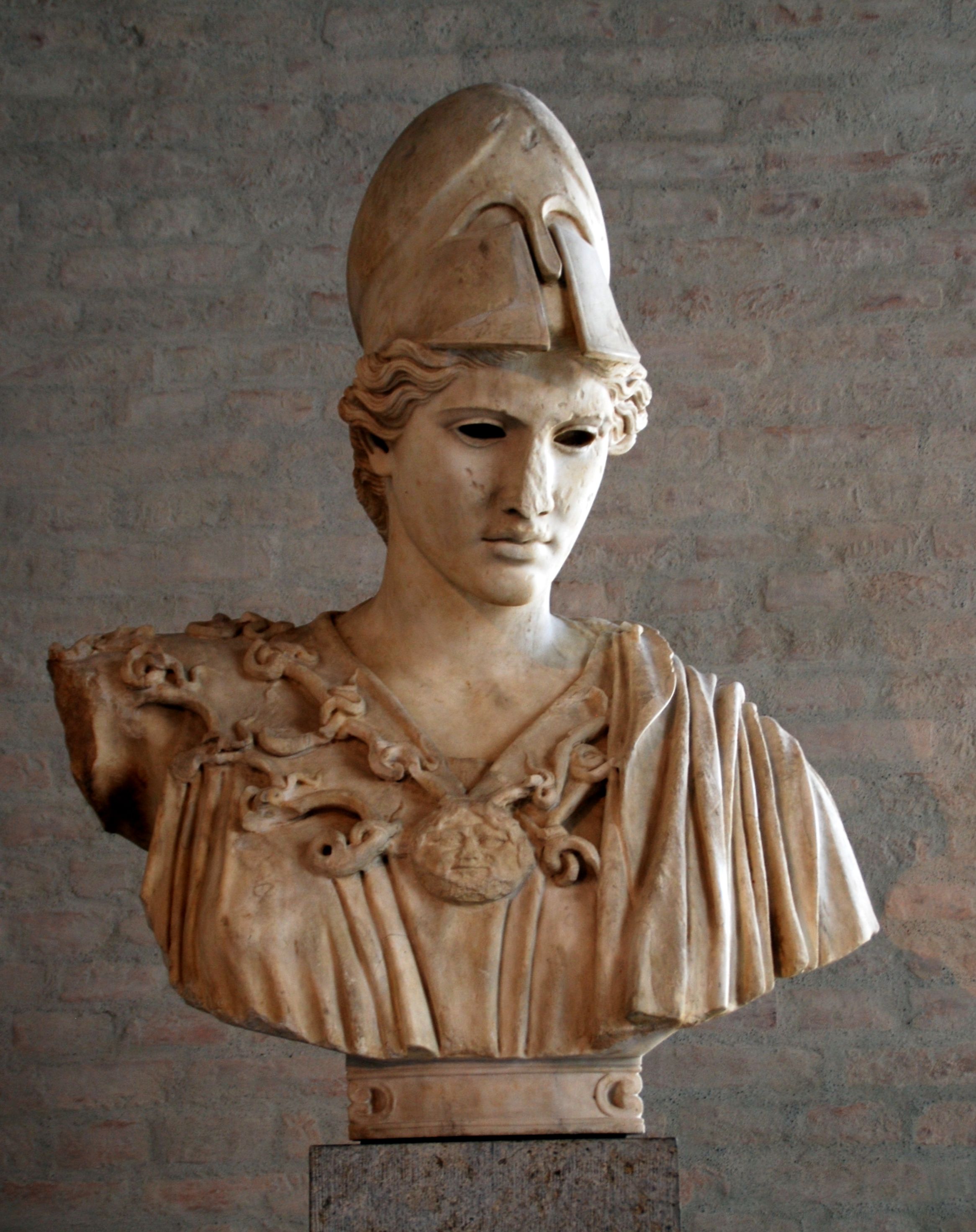 Uploaded Raw material, everybody can work on Names, Categories, Descriptions and so on.. - pictures of descriptions should be deleted after usage.